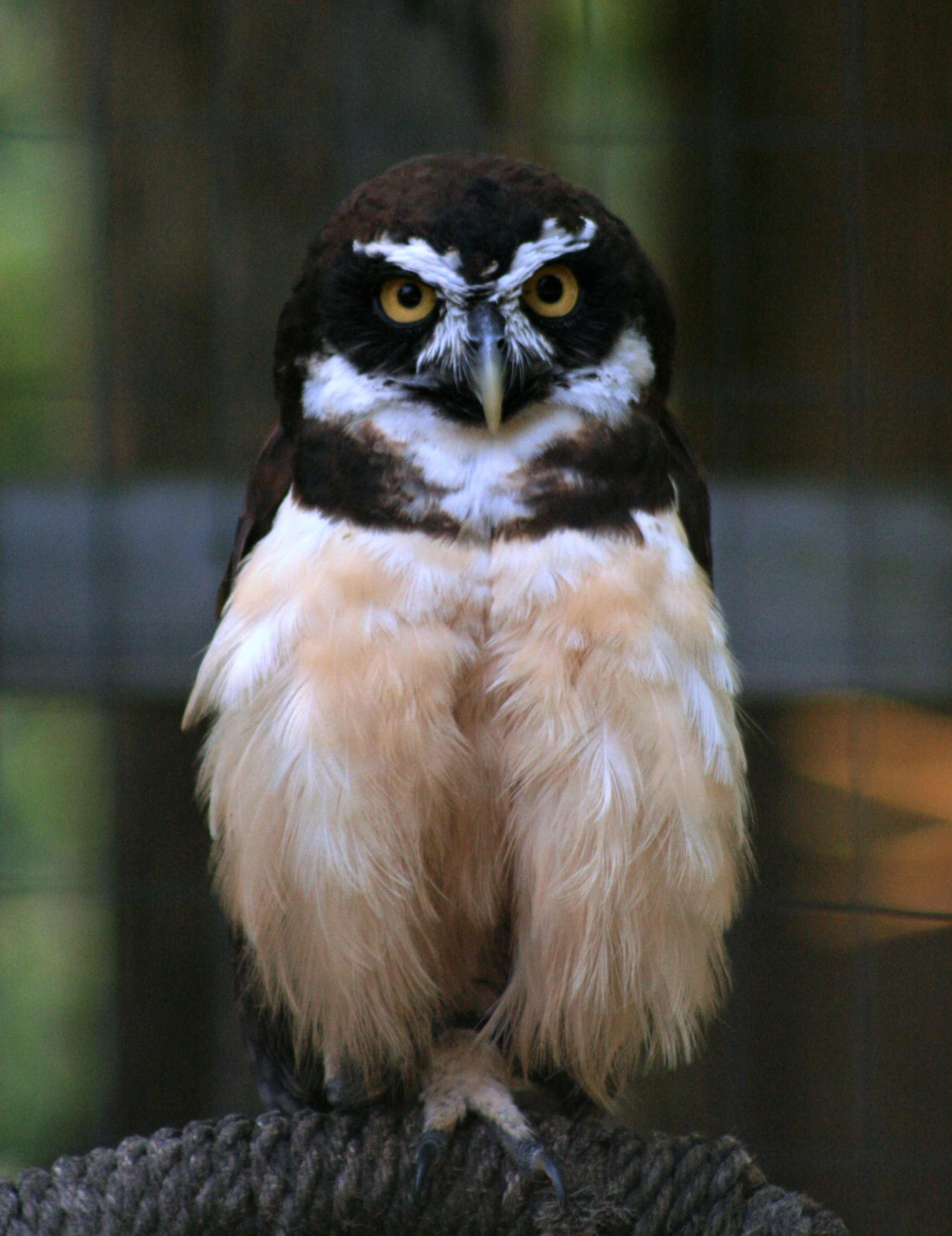 A Spectacled Owl at the World Bird Sanctuary - Valley Park, MO